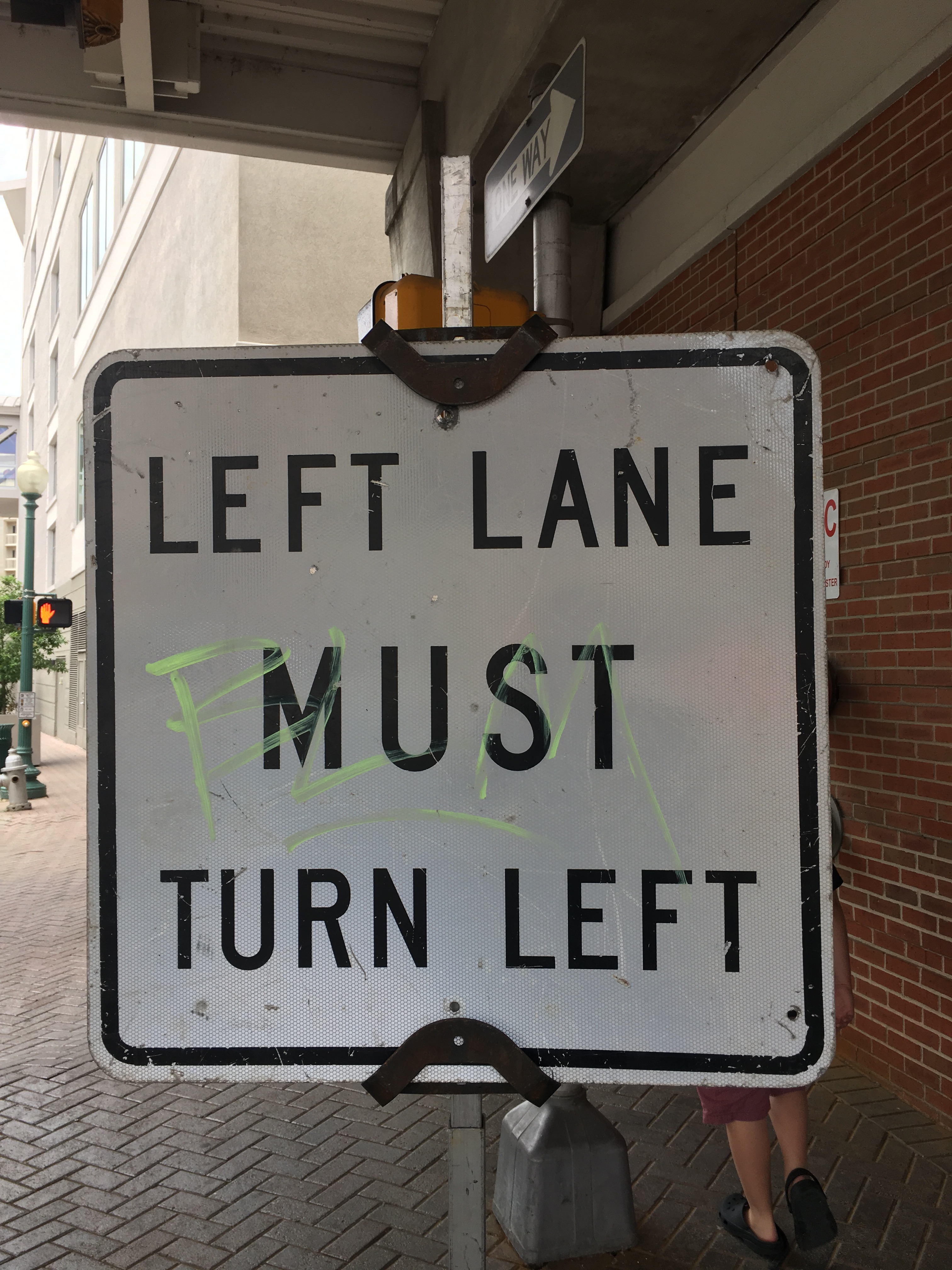 A street sign in Memphis Tennessee, vandalized with "BLM" amid the George Floy Protests